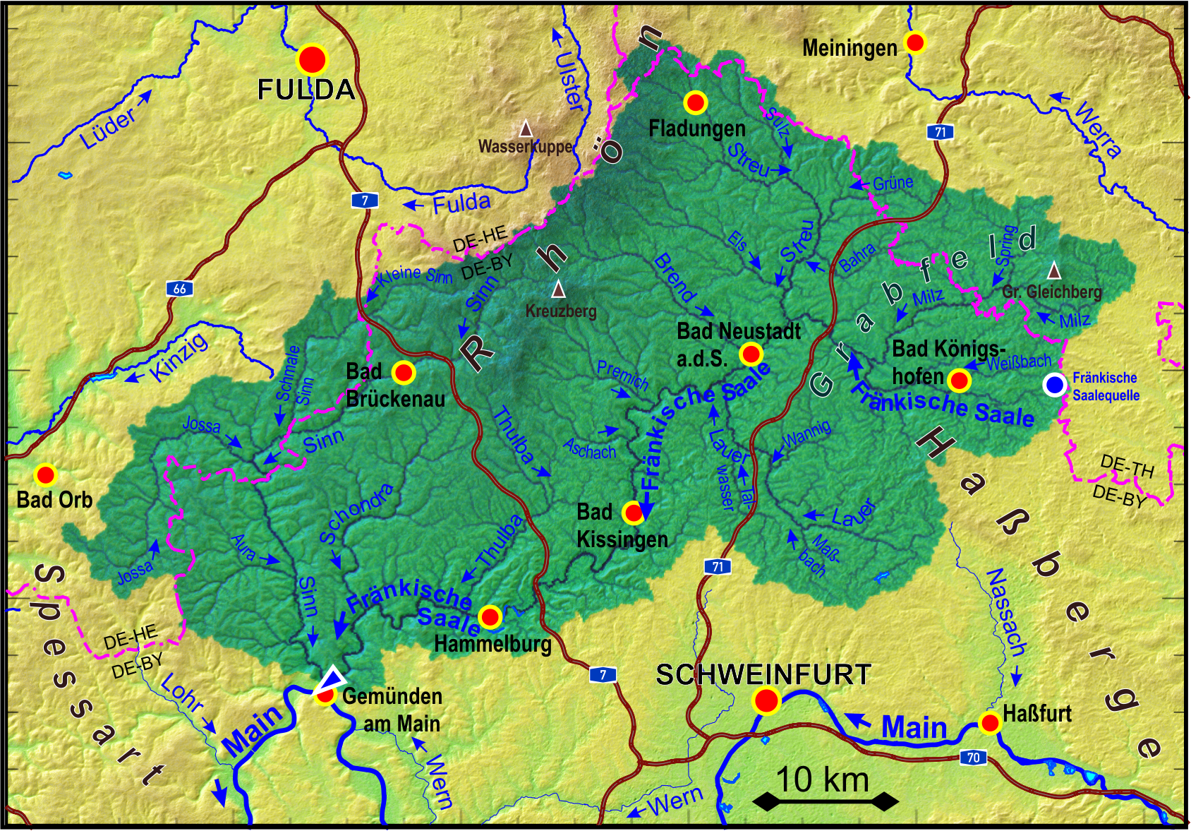 Catchment area of Fraenkische Saale